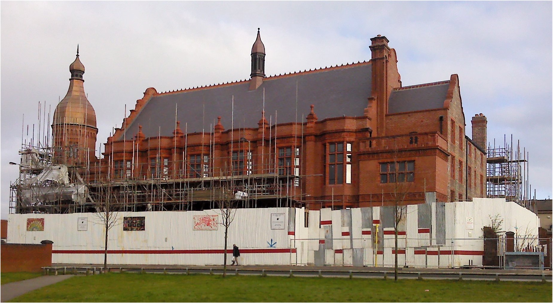 In January 2012 the restored Florence Institute ("The Florrie") began to emerge as the scaffolding was taken down, to reveal the new roof, windows, and copper cladding on the corner tower.